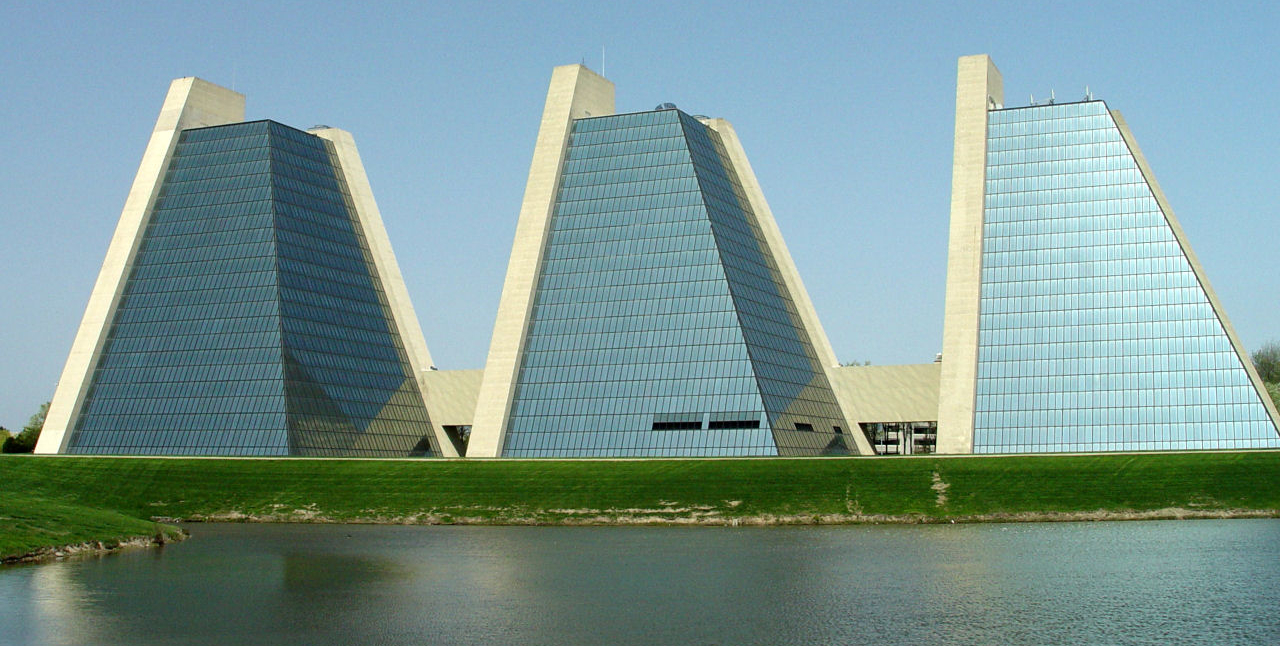 Yep... Egypt has them and so do we... and they are our Pyramids PS'd a bit to add more contrast